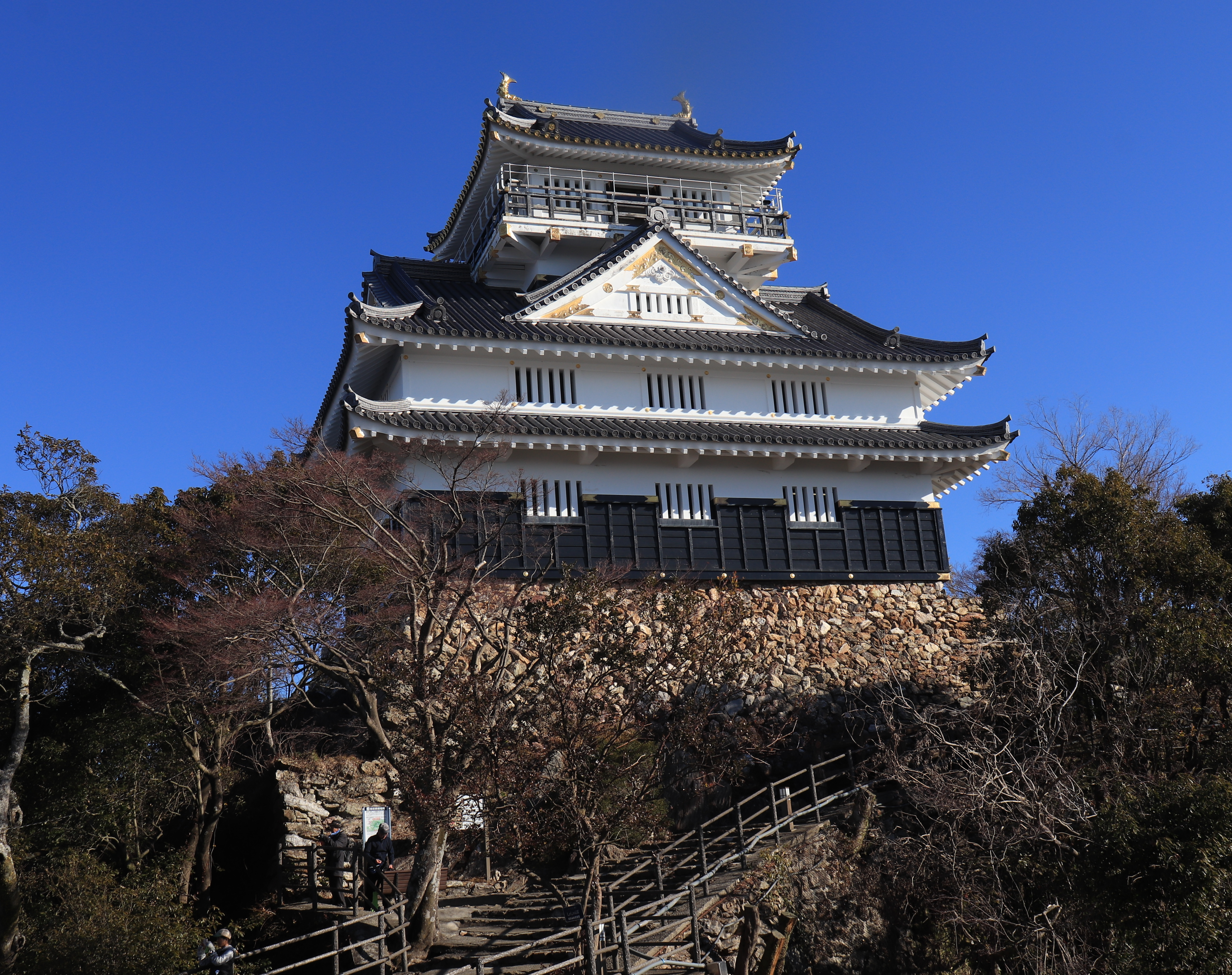 Gifu Castle on Mount Kinka in Gifu City, Gifu Prefecture, Japan. Canon EOS Kiss X9